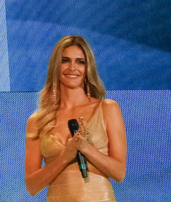 Fernanda Lima FIFA World Cup draw